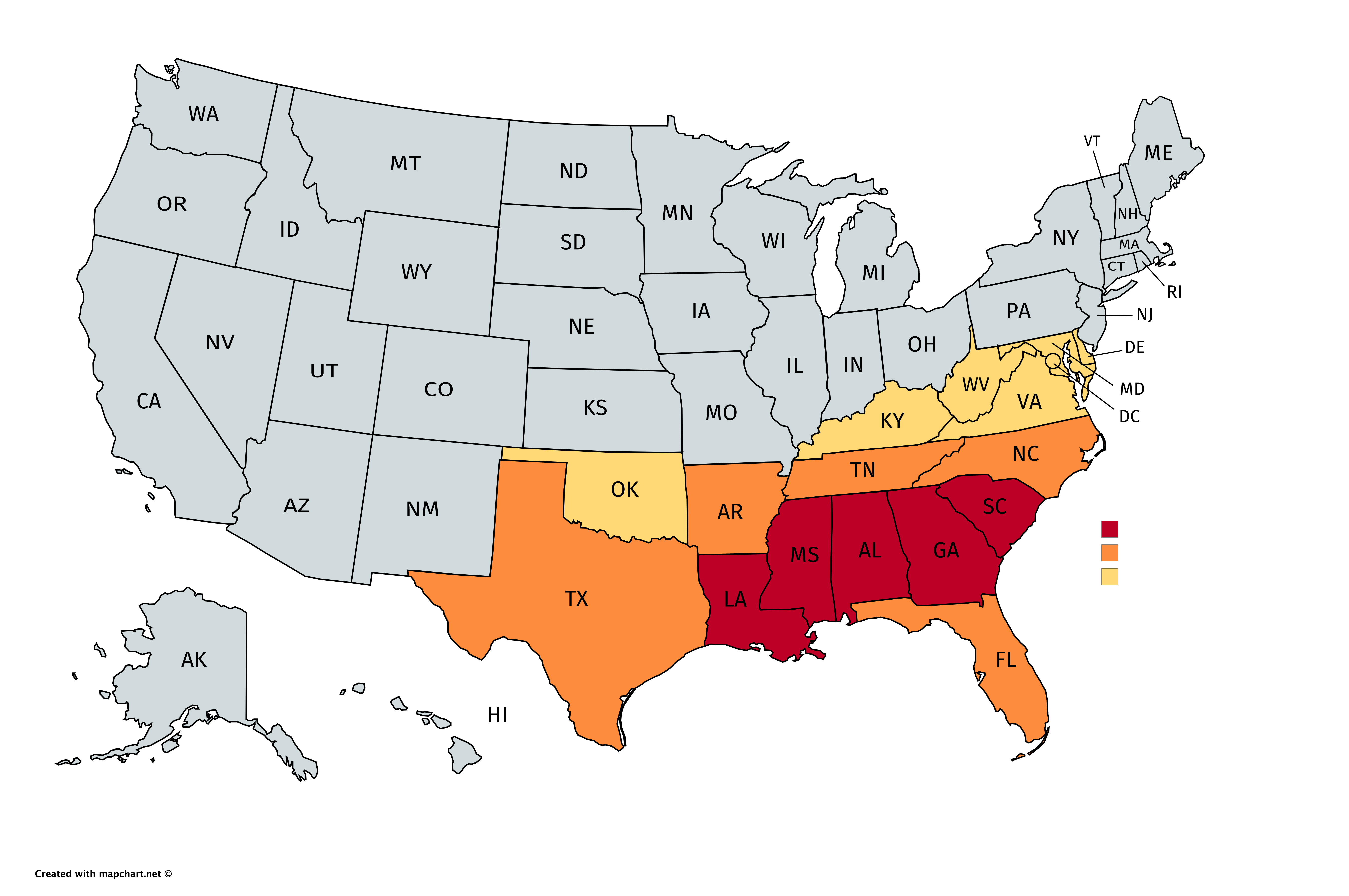 Approximate geographic definitions of the "Deep South" within the greater Southern United States. The Deep South is consistently thought to include most or all of the states shown in red, with extensions into portions of those in orange. While many or most (including the Census Bureau) consider the states in yellow to be part of the Southern U.S., they typically do not carry the Deep South geographic label.